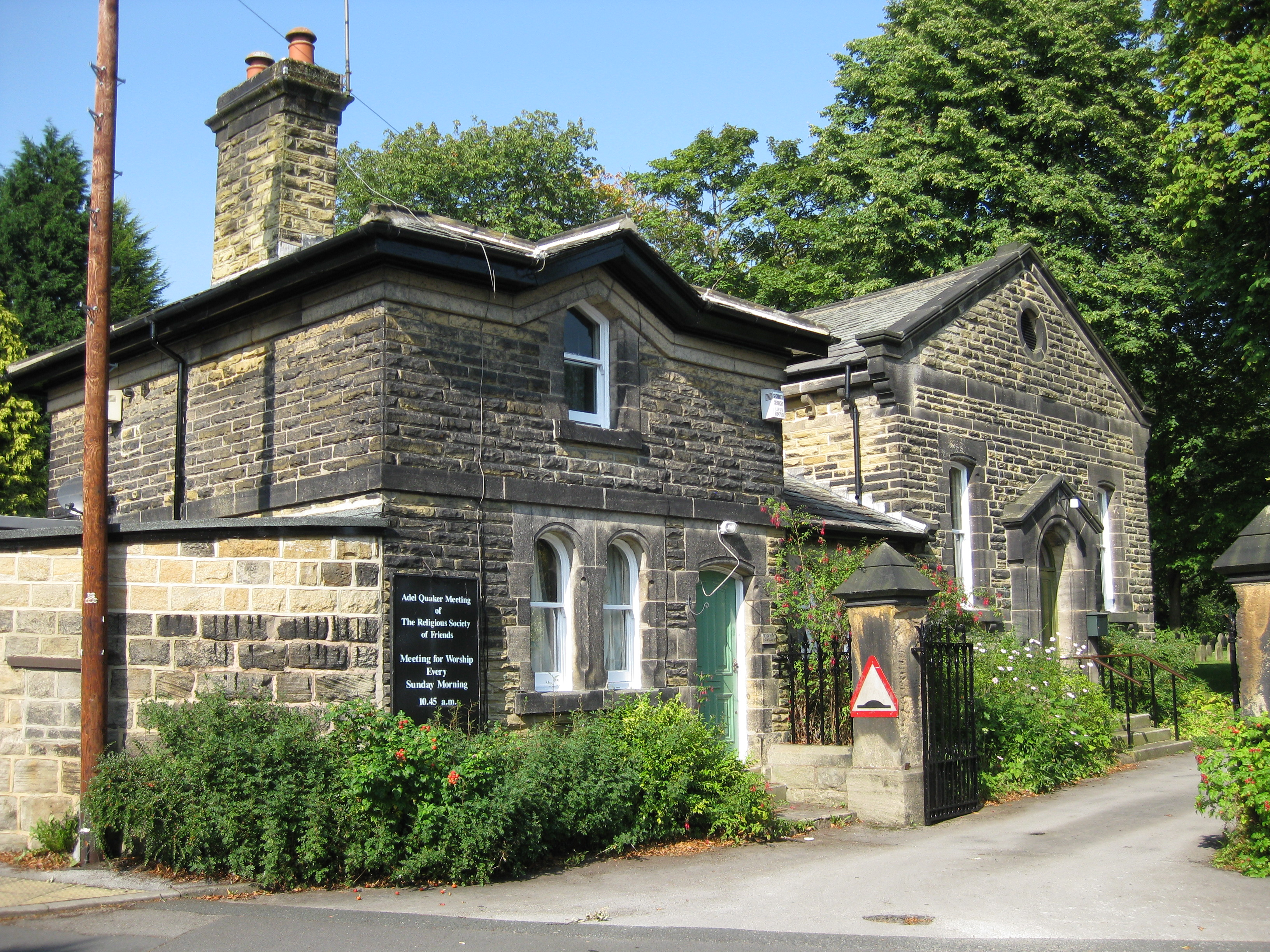 Adel Friends' Meeting House (right) and lodge (left), New Adel Lane, Leeds, West Yorkshire, seen from the southeast. Built in 1868.